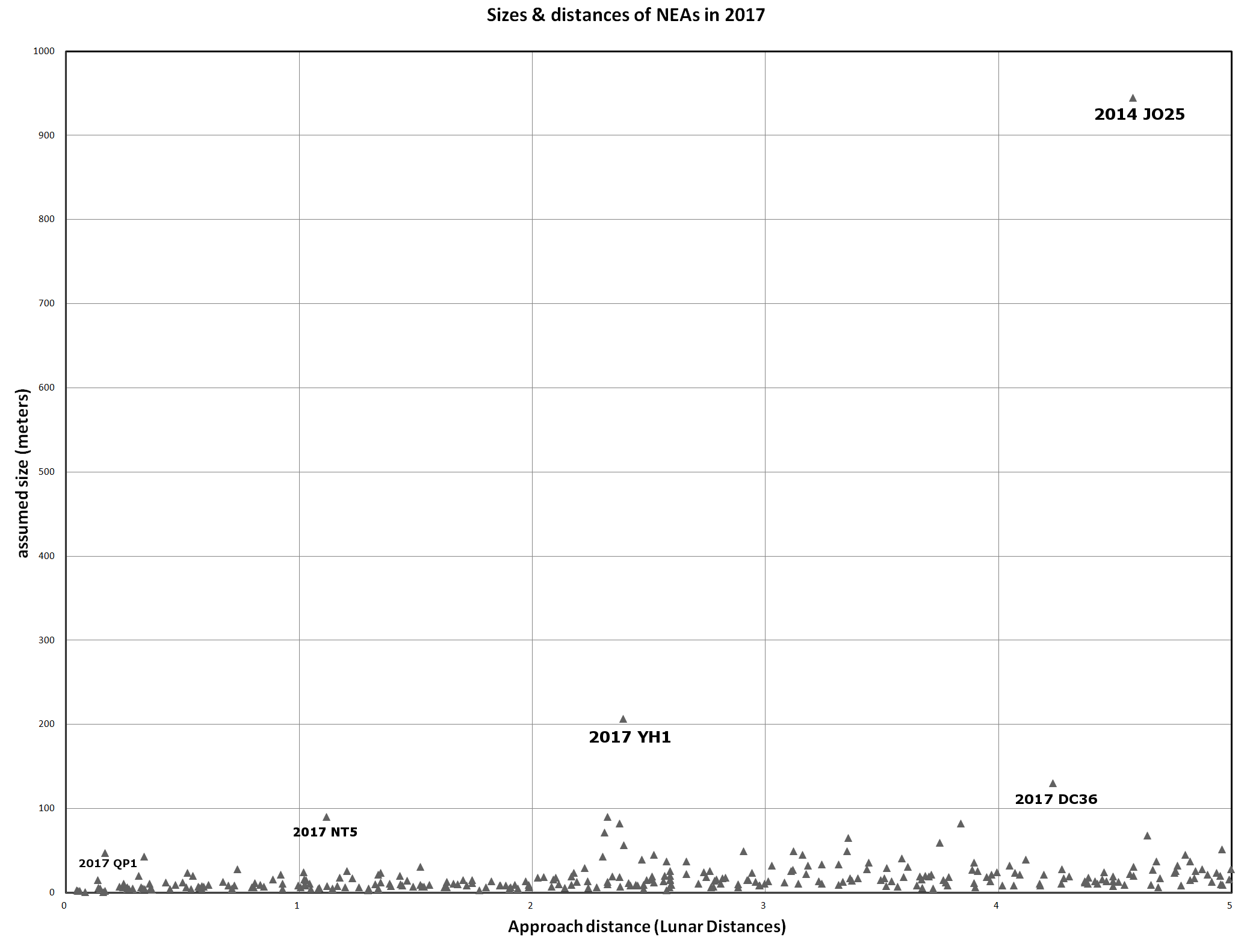 A graph of the sizes and approach distances of all known asteroids to pass less than 5 Lunar Distances (~0.01285 AU) from Earth as of 2018. Sizes are assuming a typical asteroid albedo of 0.15, and the distances are nominal, acquired from . A few notably large asteroids are marked.